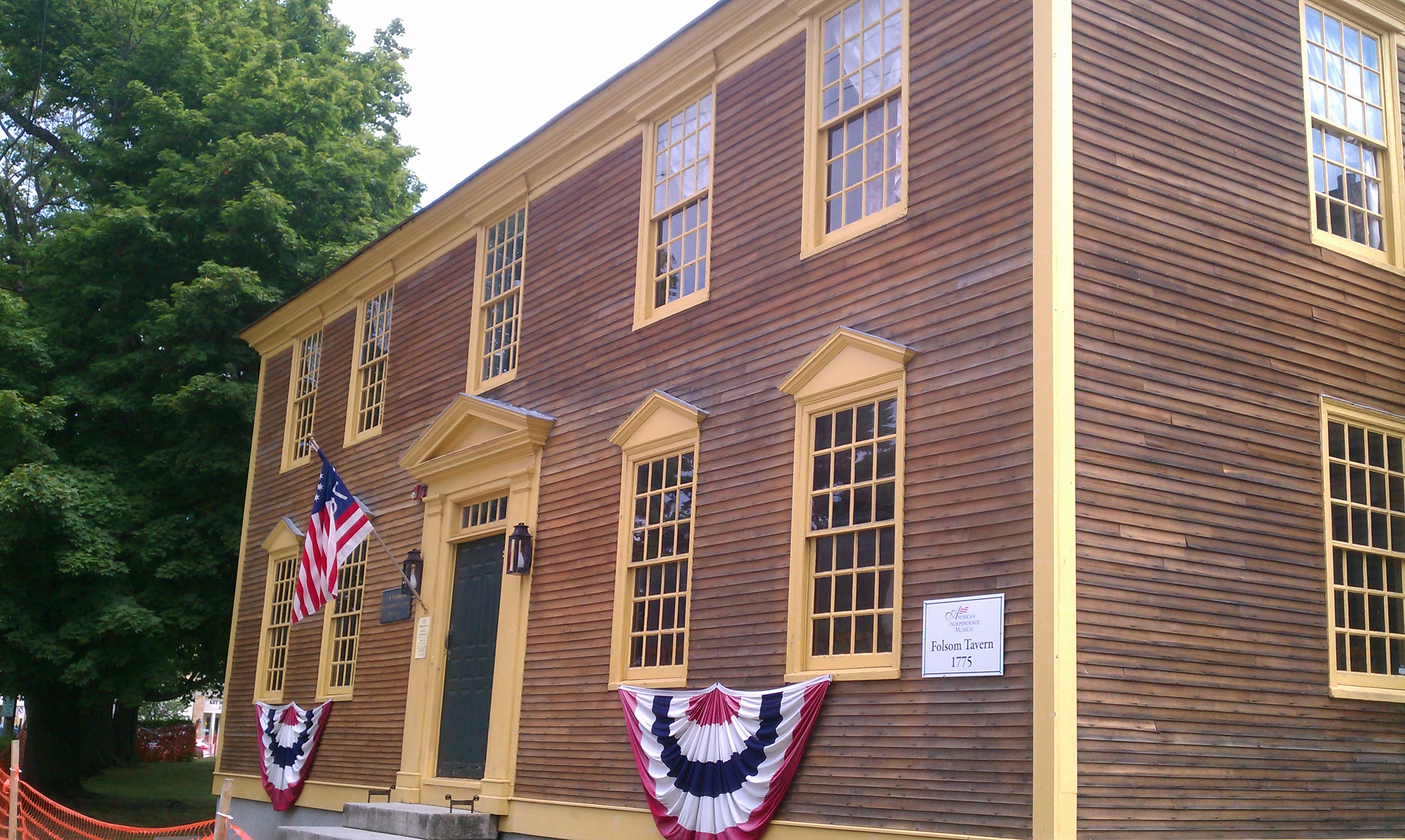 Front of the Folsom Tavern, c 1775, part of the American Independence Museum, Exeter, New Hampshire